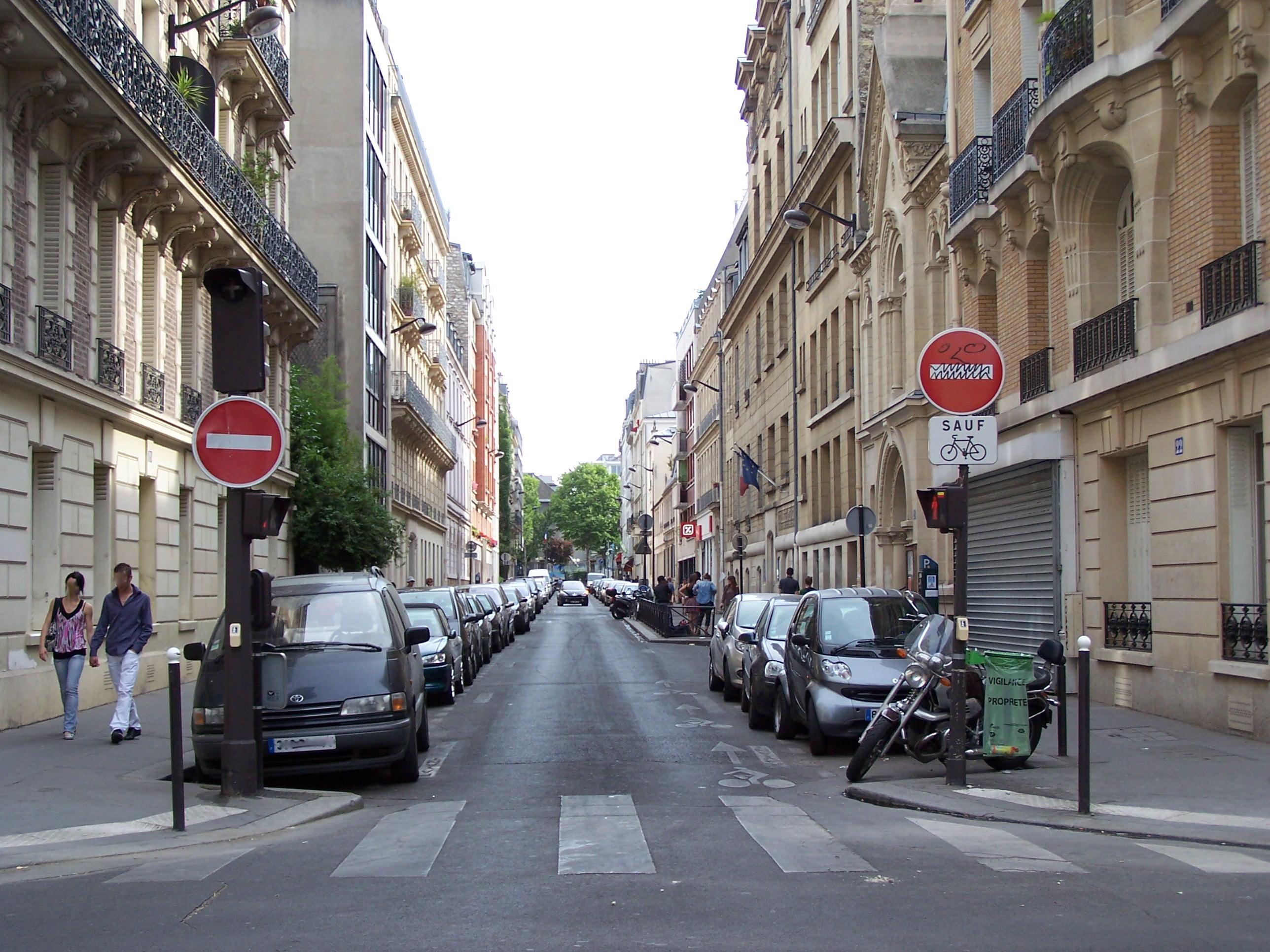 View of the rue Pierre-Nicole in Paris at the corner with the rue du Val-de-Grâce